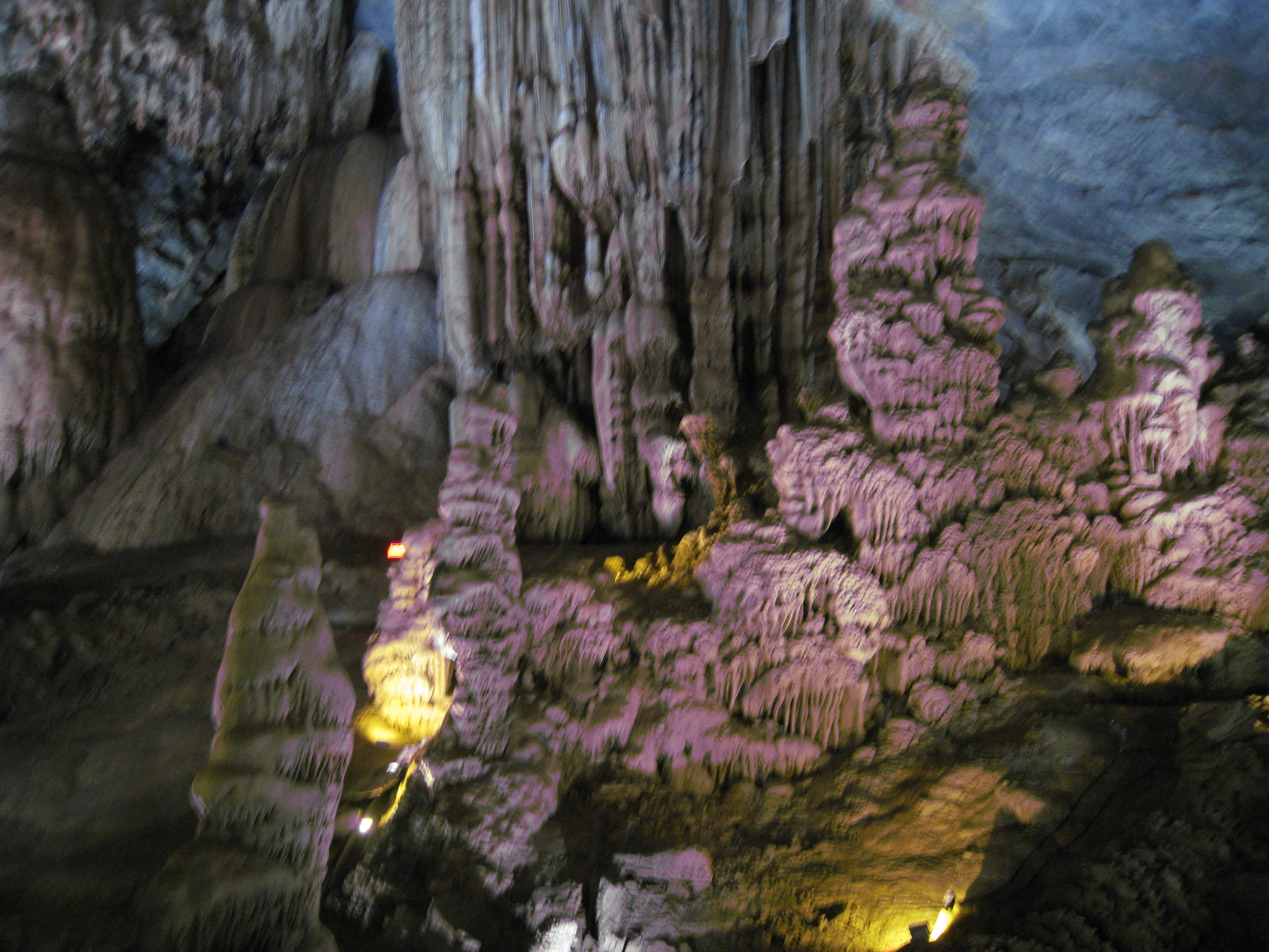 Thien Duong (Paradise) Cave in Phong Nha-Ke Bang National Park, Vietnam